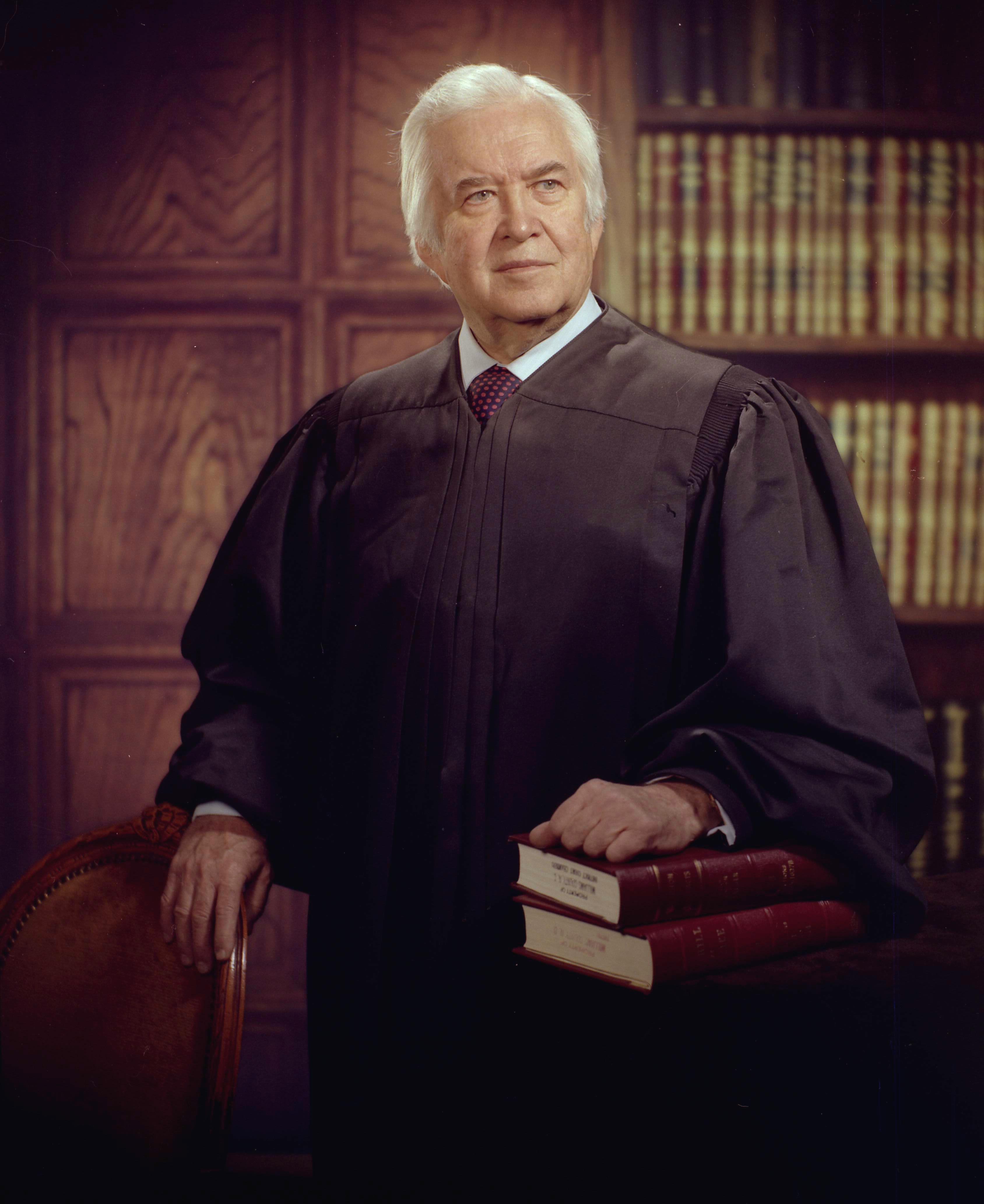 Burdick at retirement (1978)